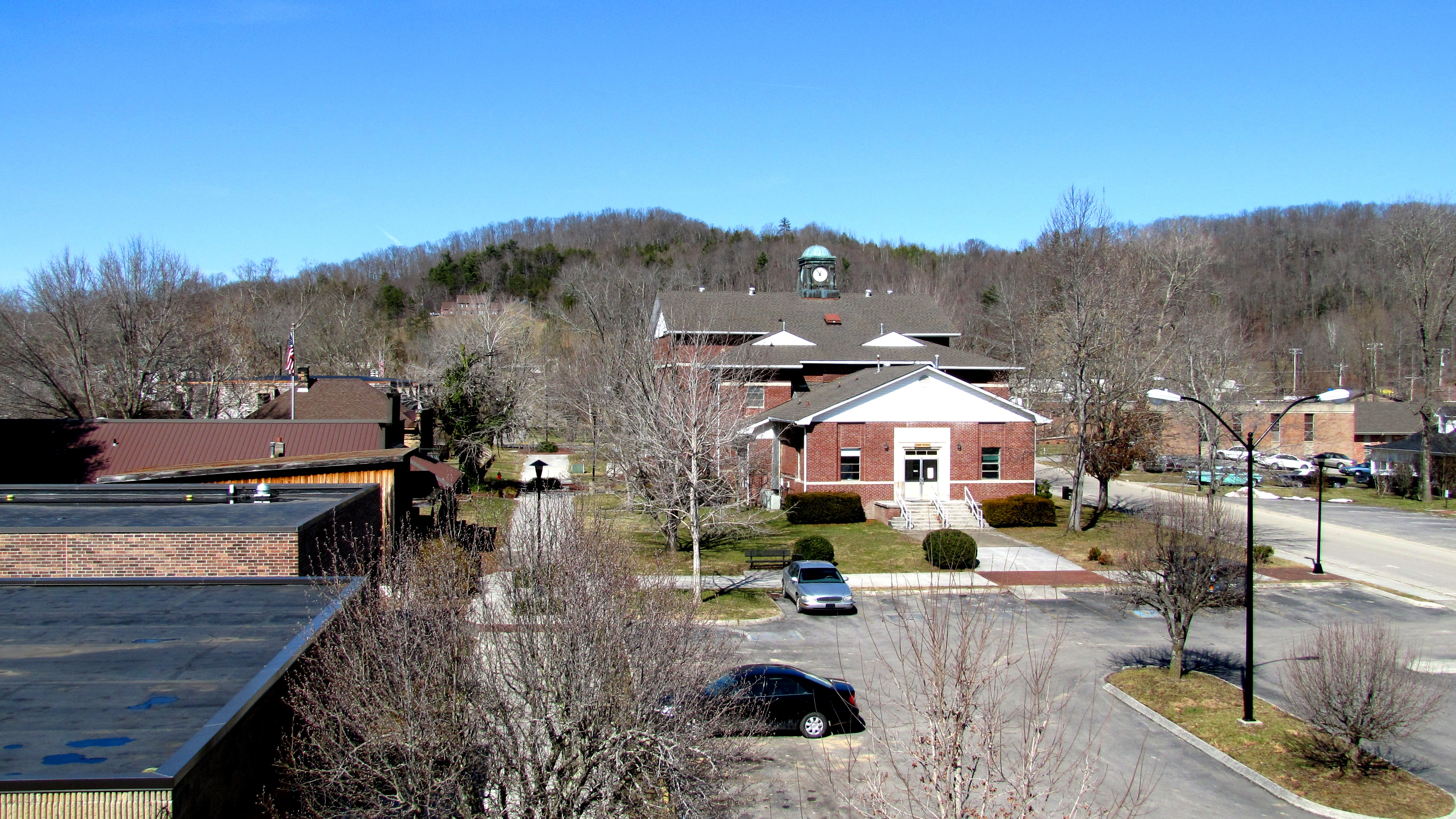 View of Courthouse Square in Huntsville, Tennessee, USA, from the fire escape of the Old Scott County Jail. The Scott County Courthouse is below.